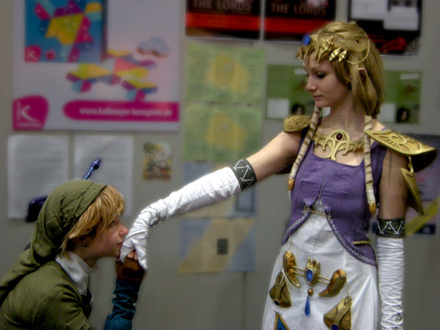 Cosplayers at the Leipzig Book Fair 2009 Link (left) and Zelda (right) from Twighlight Princess